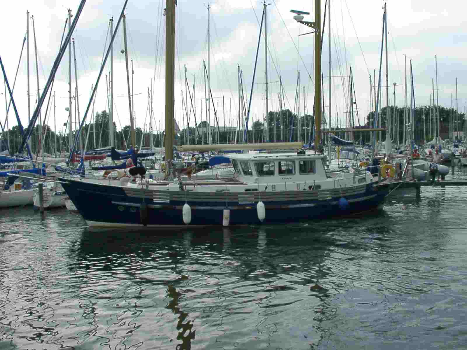 Fisher 46. Largest model of Fisher motorsailing yachts. Sideview